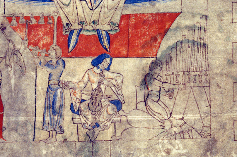 The Harding Bible, David surrounded by musicians.